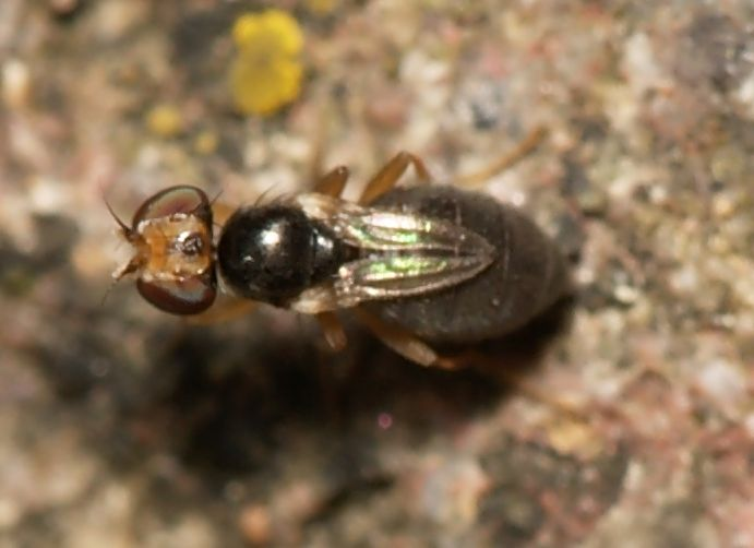 Short-winged form of Stiphrosoma sabulosum (Anthomyzidae) from Cologne, Germany. (det. pwalter/Paul Beuk)